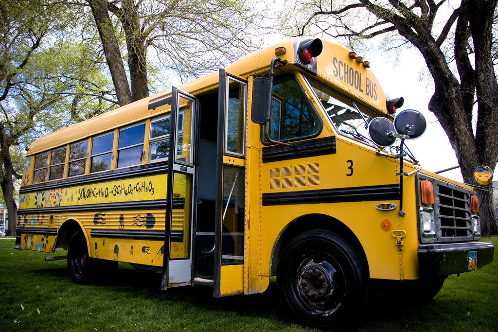 Thomas Built Buses Mighty Mite school bus. This bus is a retired unit that has been customized.